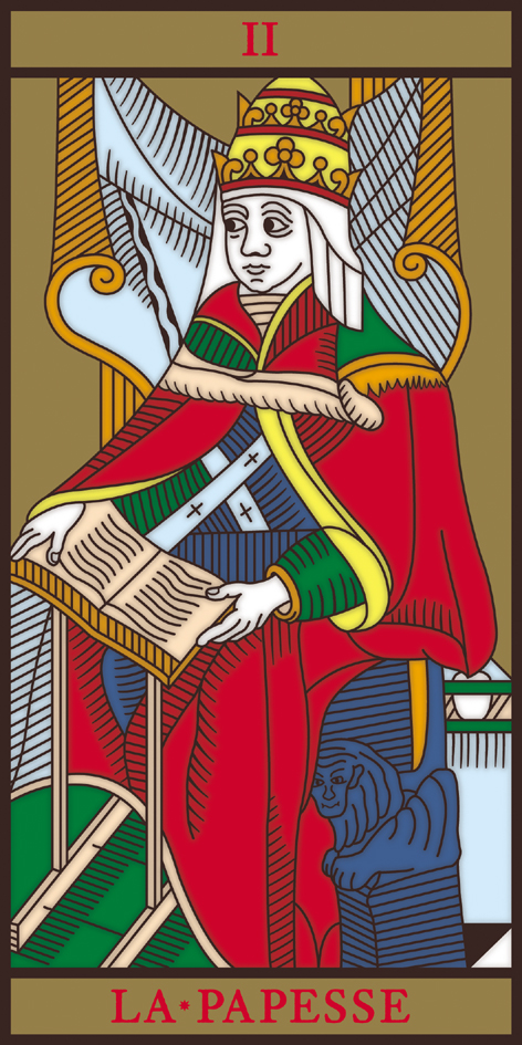 PAPESSE, LA PAPISA; Tarot Marsella